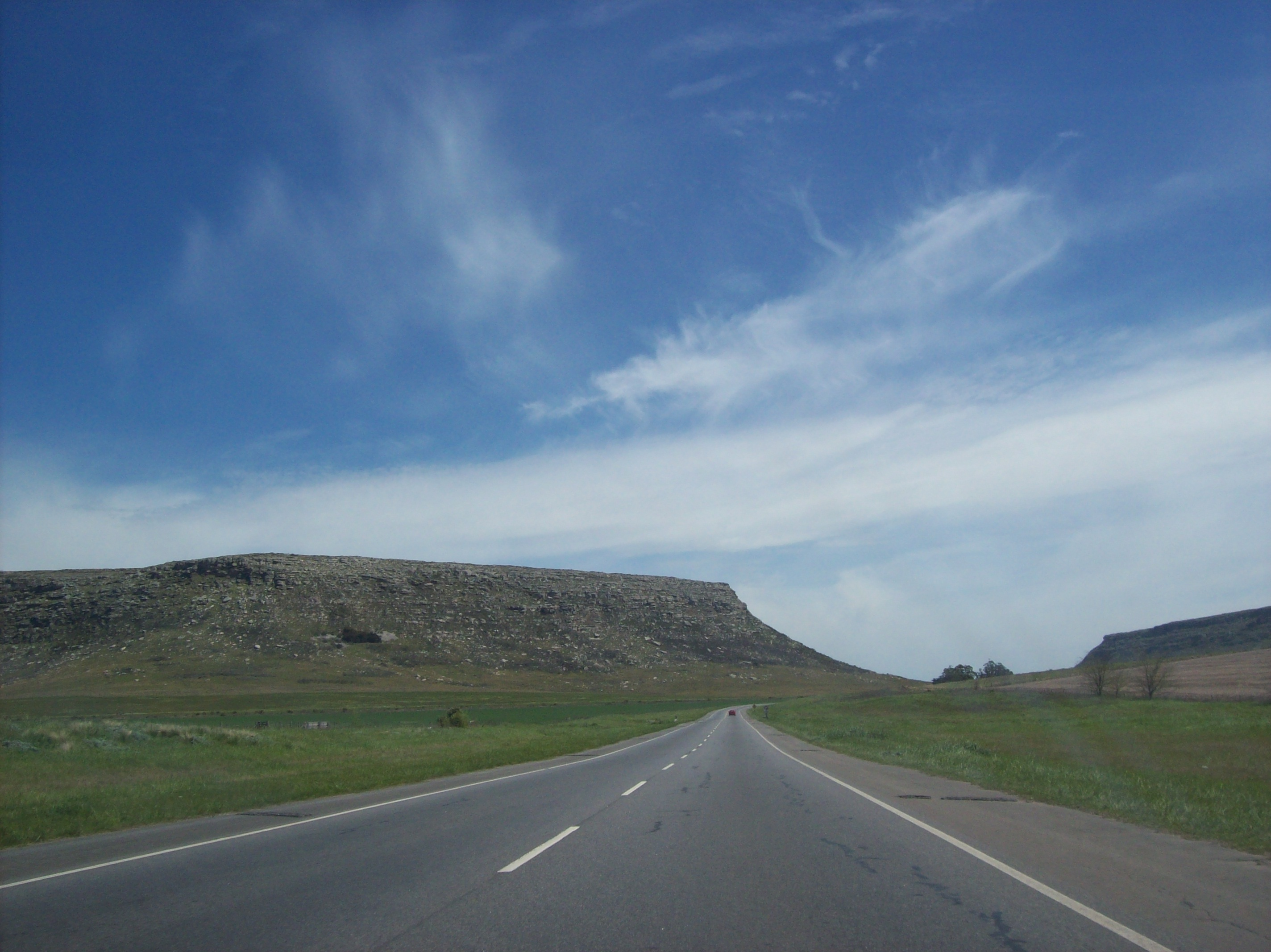 National Route 226 in Puerta del Abra, Buenos Aires Province, Argentina.